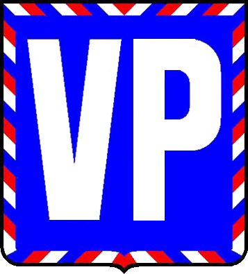 Czech Military police Coat of Arms